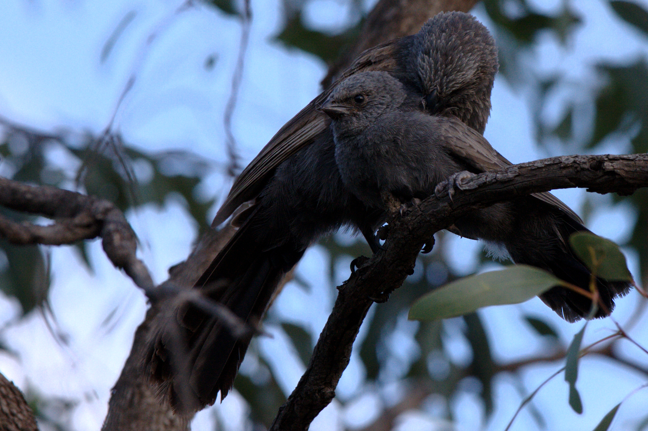 Apostlebirds in Australia.